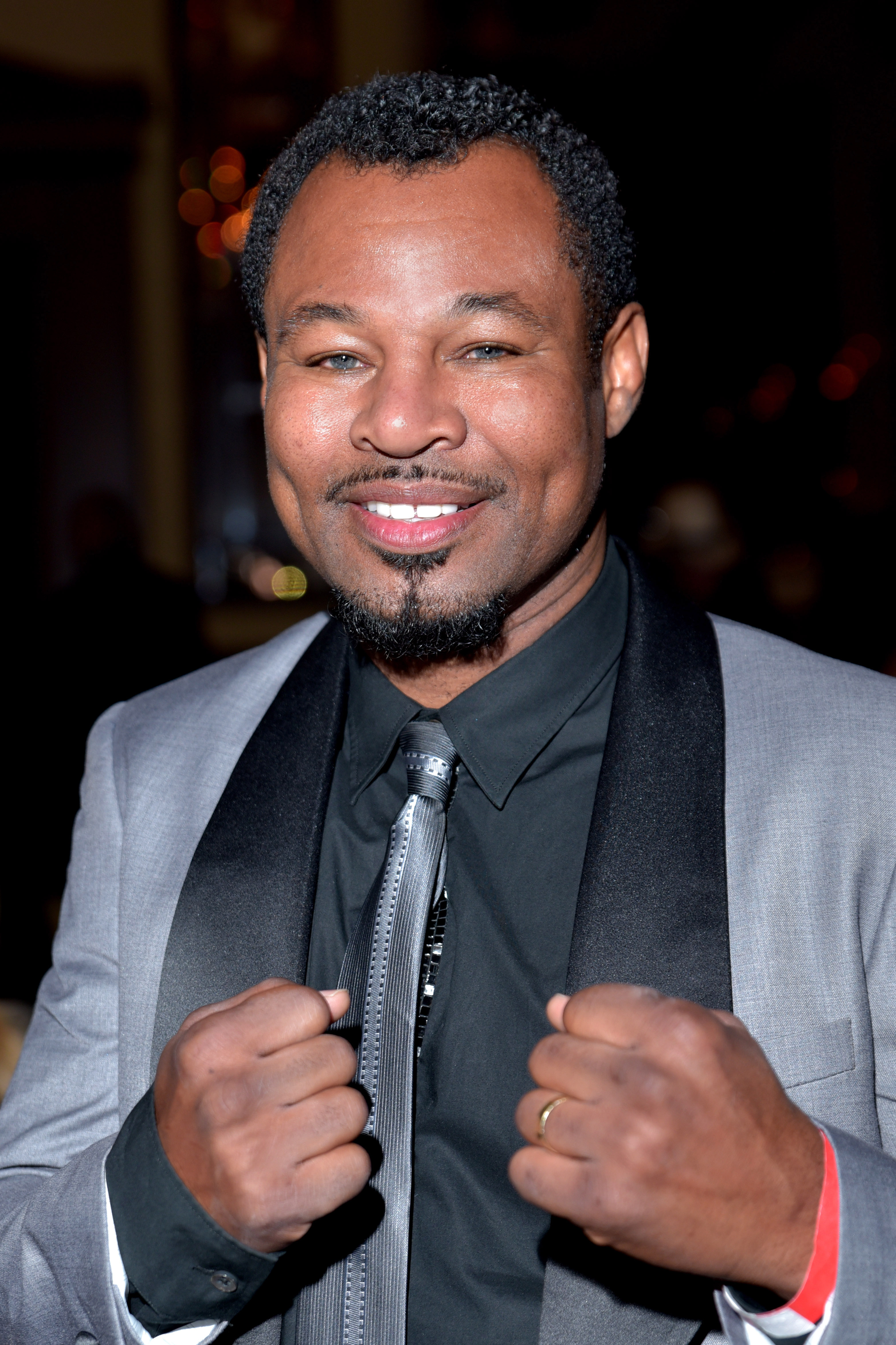 'Sugar' Shane Mosley, Hollywood, California on December 12, 2018 - Photo by Glenn Francis of and Glenn.Photos